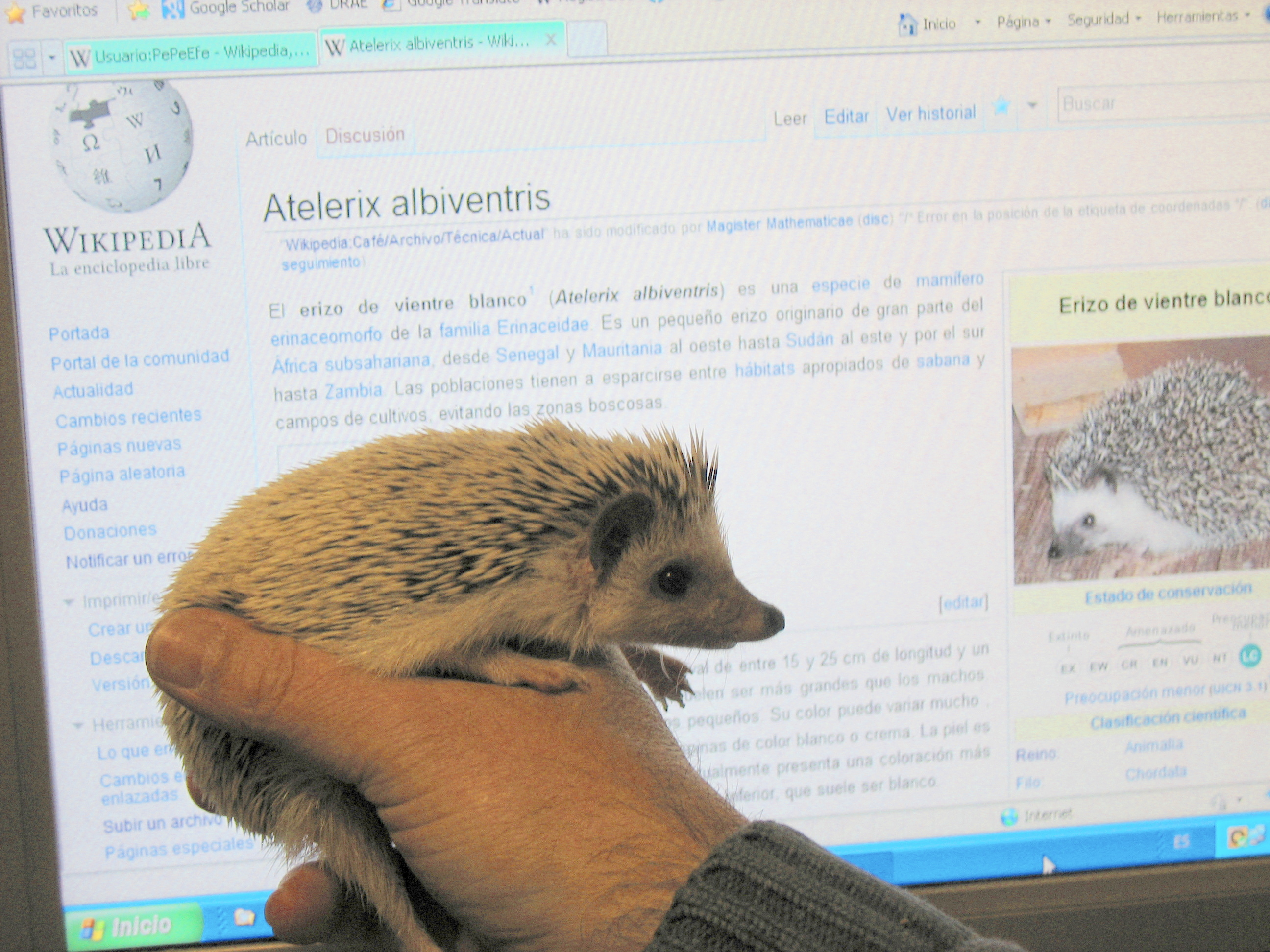 Female Atelerix albiventris, five months old (Moneypenny). Captivity born pet.